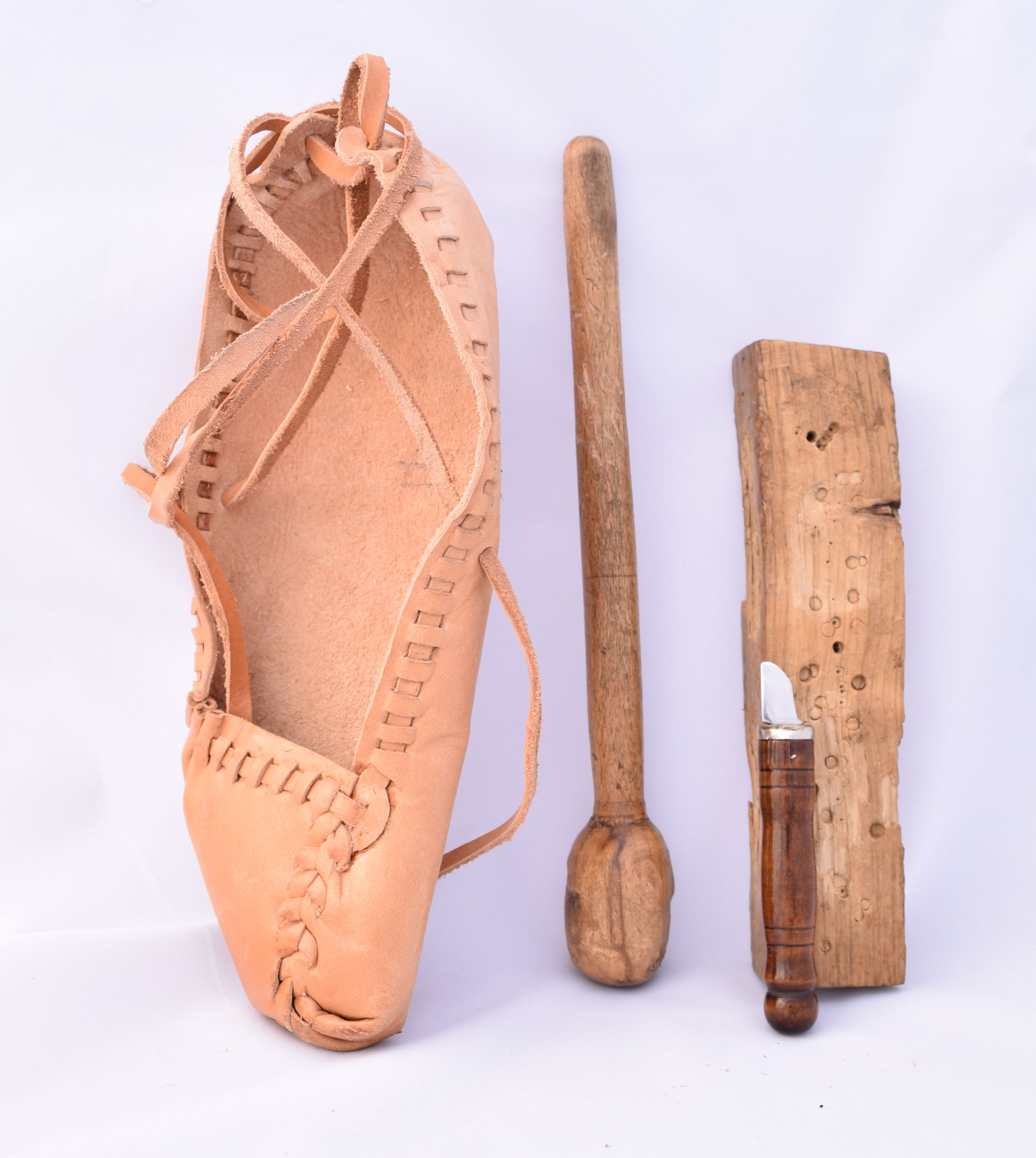 Kierpce shoe made in 2016 by craftsman from Silesia Beskids [Beskid Śląski], with tools